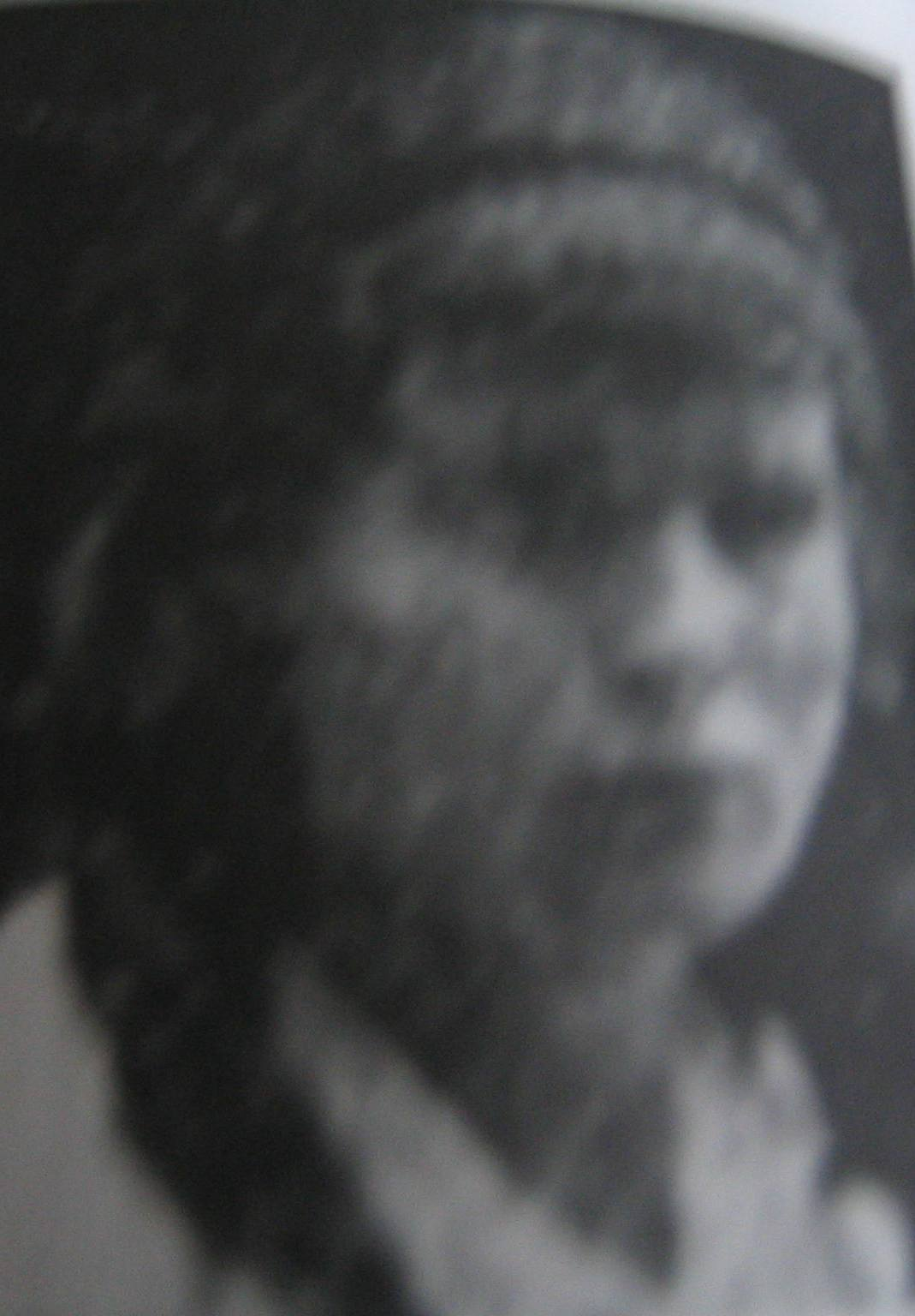 Finnish red guard leader Elli Kokko